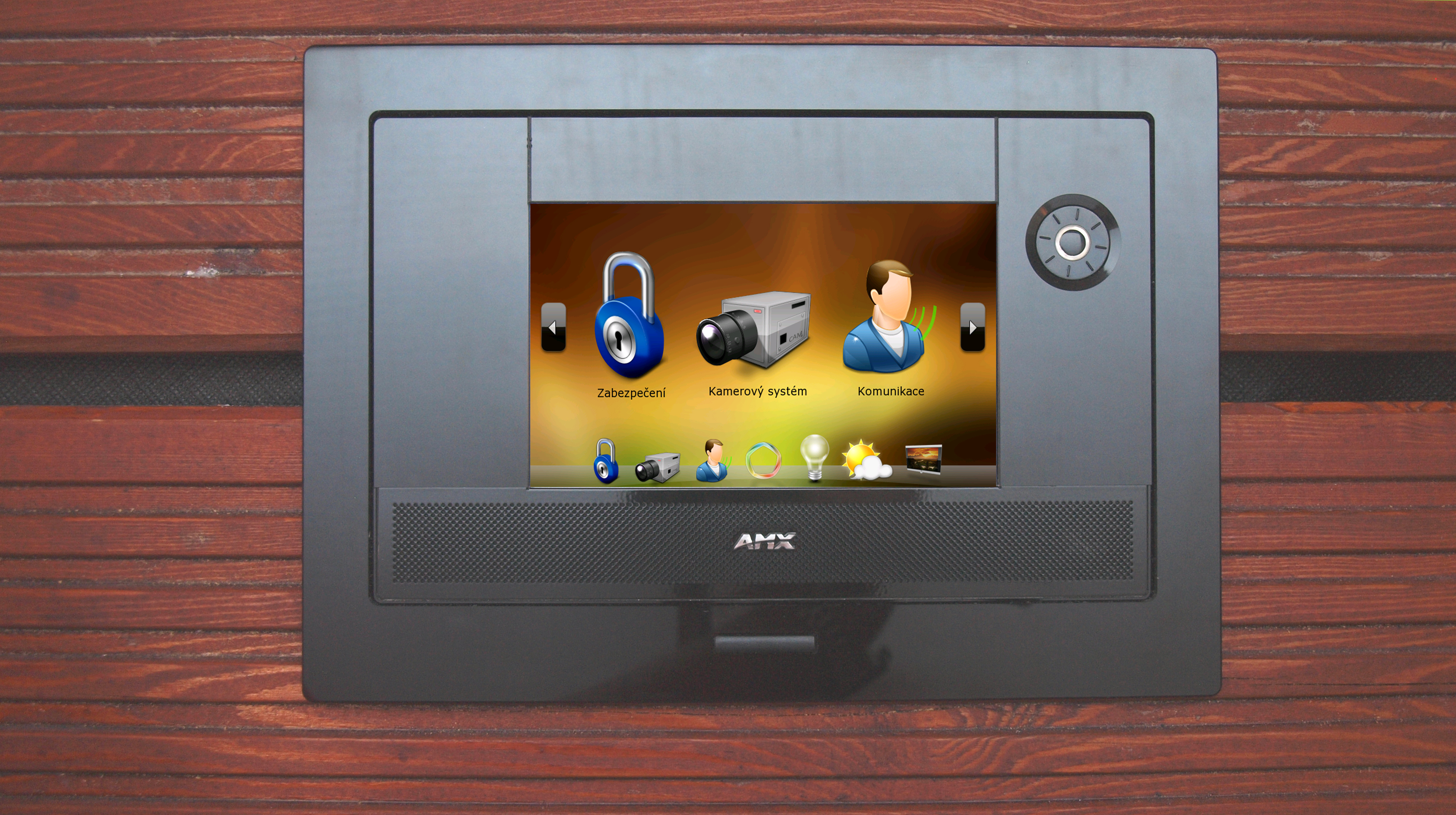 Control panel of a home automation system